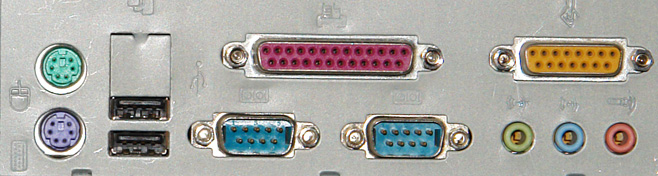 Hardware ports on a PC